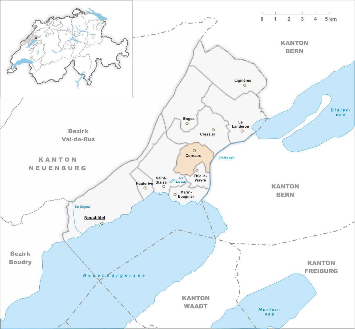 Municipality Cornaux